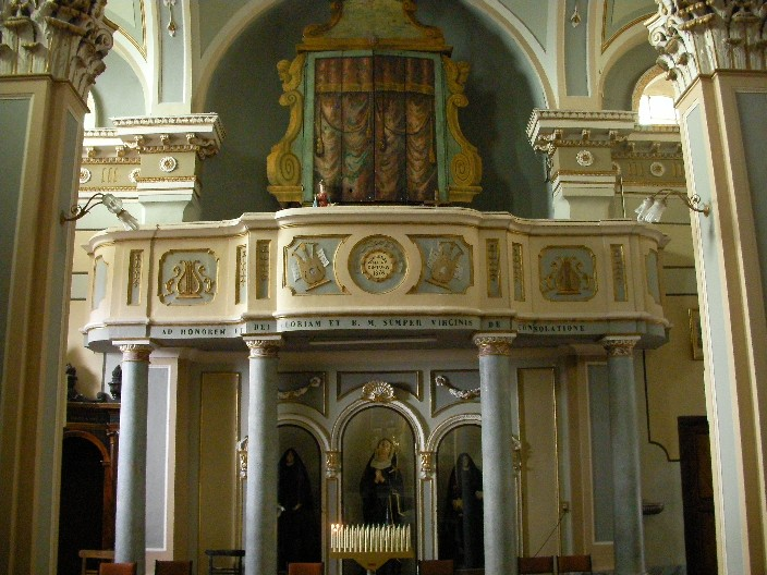 The organ of the church of Madonna Immacolata della Cintura to Atessa